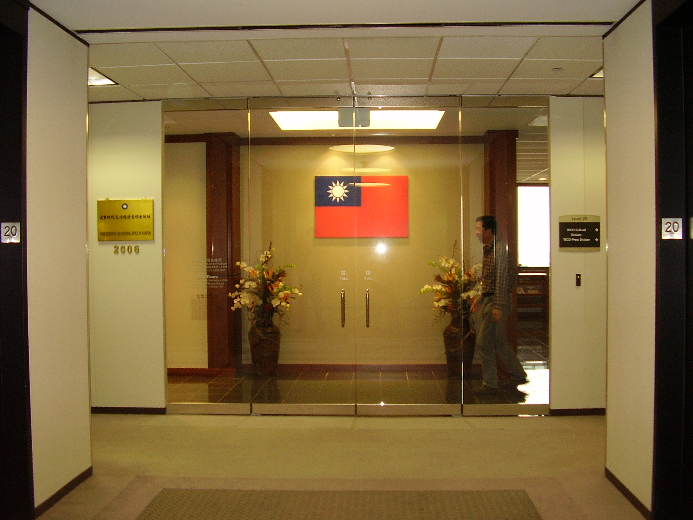 Taipei Economic and Cultural Office in Houston - Suite 2012 of 11 Greenway Plaza - This is an office of the Republic of China